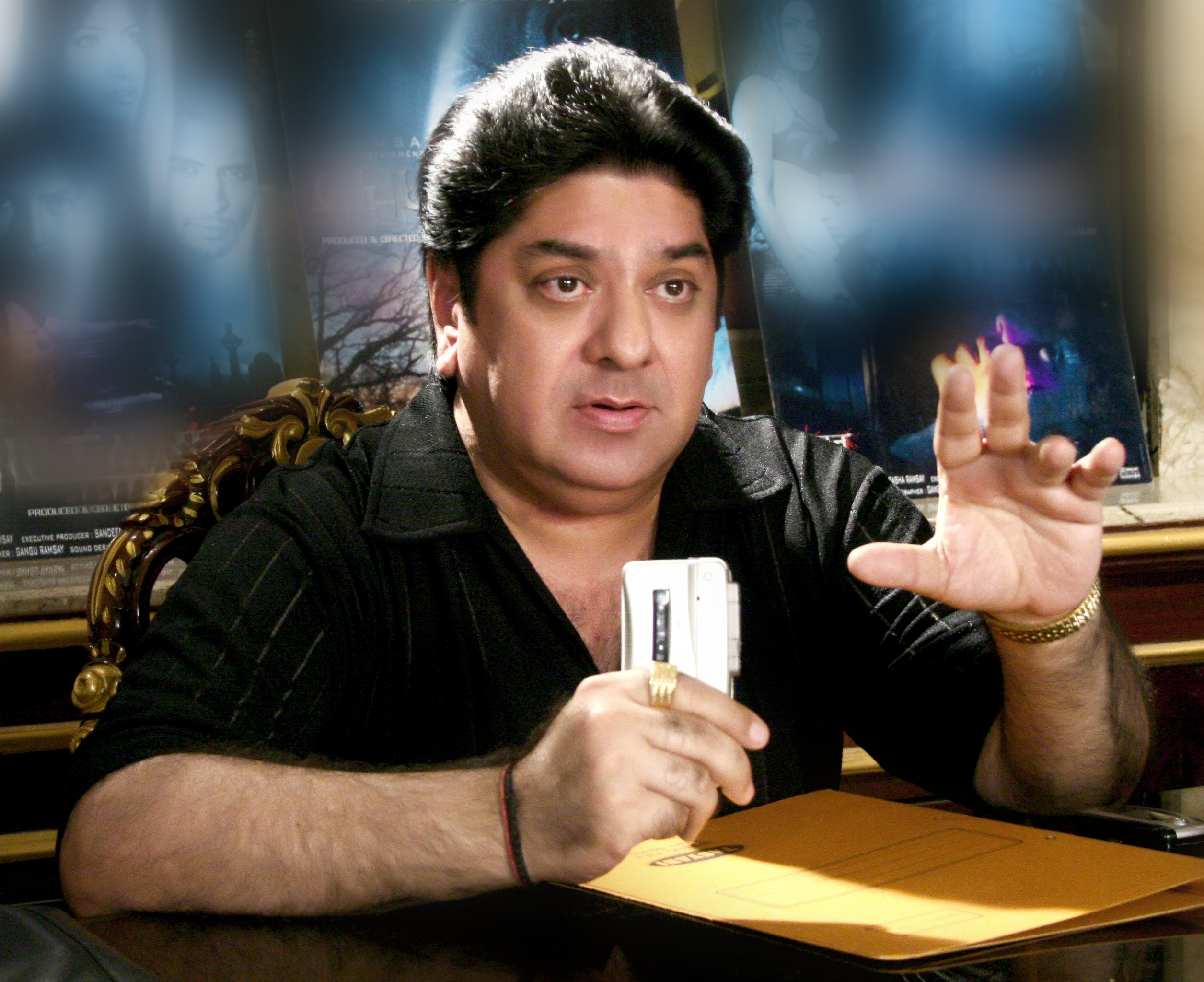 Mr. Shyam Ramsay is one of the Ramsay Brothers who is credited with pioneering the horror film industry in India.